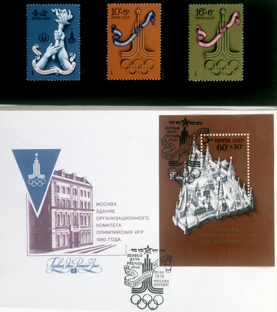 “Stamps, dedicated to the XXII Olympic Games in Moscow. 1980”. Philately: stamps, dedicated to the XXII Olympic Games in Moscow. 1980.